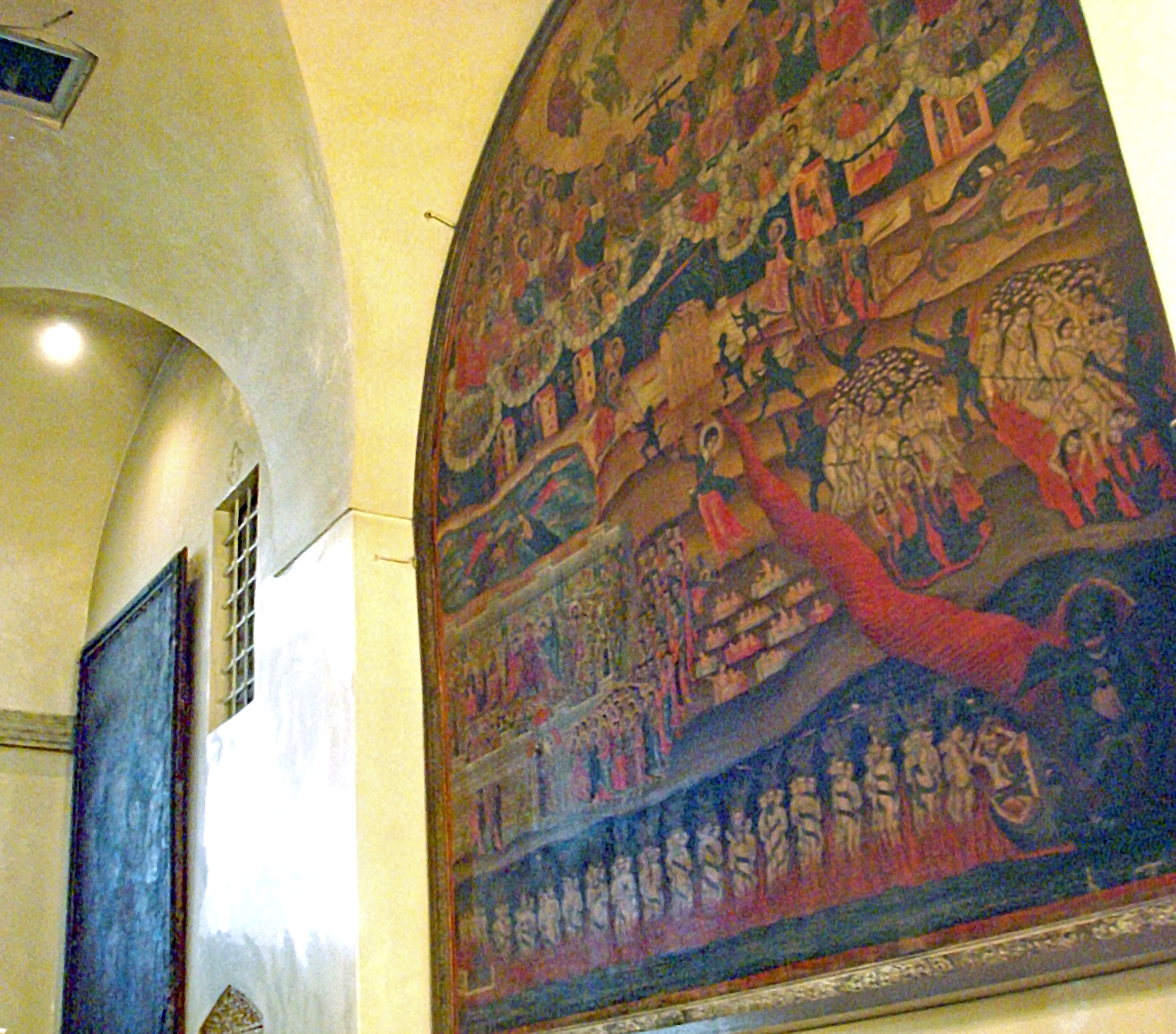 Forty Martyrs Armenian Cathedral Aleppo